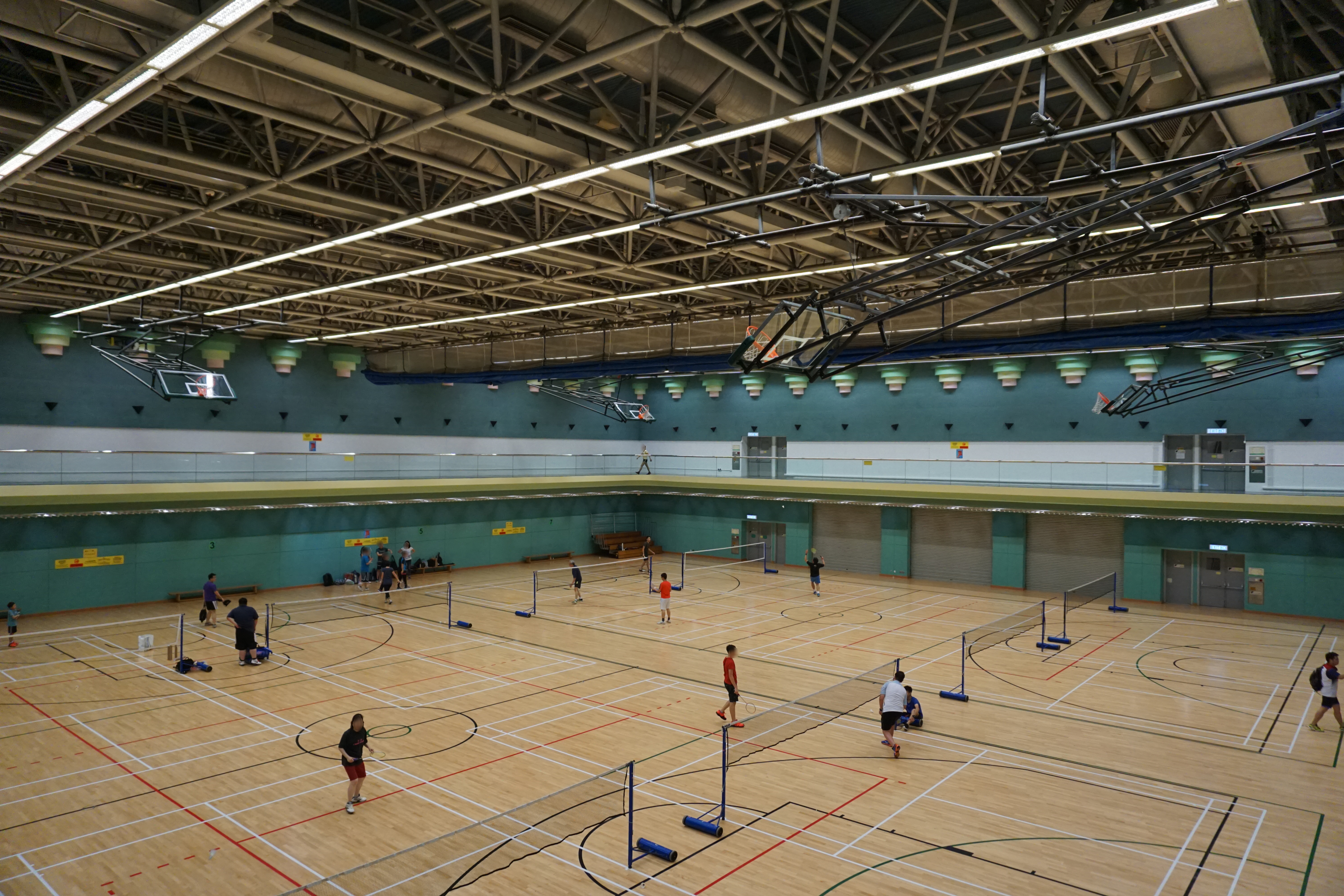 Hong Kong Park Sports Centre in Admiralty, Hong Kong.